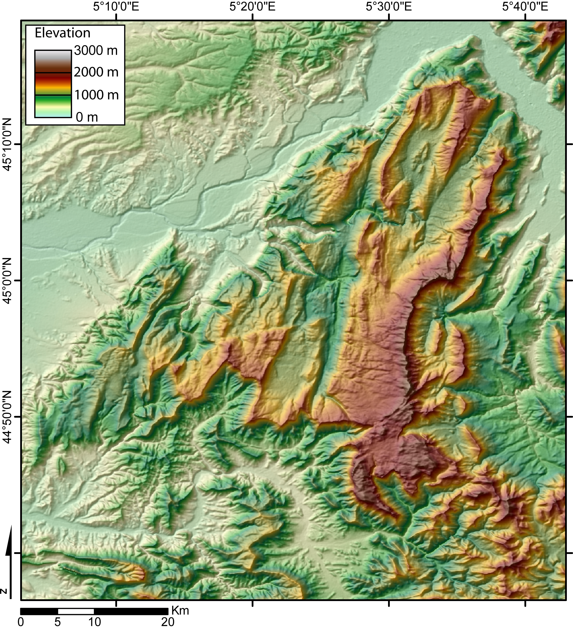 Digital Elevation Model of the Vercors massif (French Alps) created by jide from the 90m pixel size SRTM dataset. The broad valley to the NW and NE is the Isere valley. The city of Grenoble lie in the Gresivaudan, at the NE of the Vercors massif.